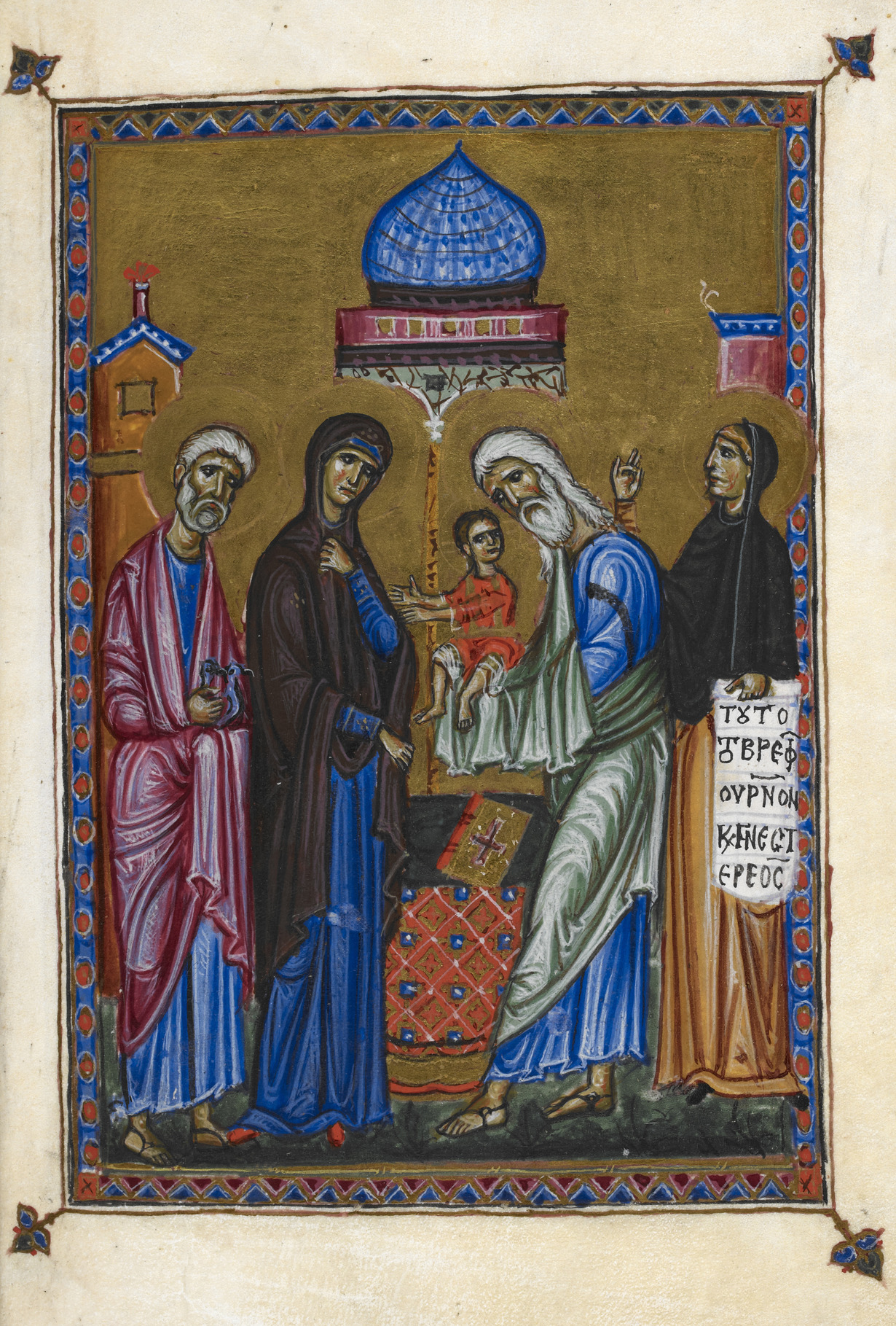 The Presentation of Christ in the Temple. Christ is held by Simeon; the Prophetess Anna holds an open scroll